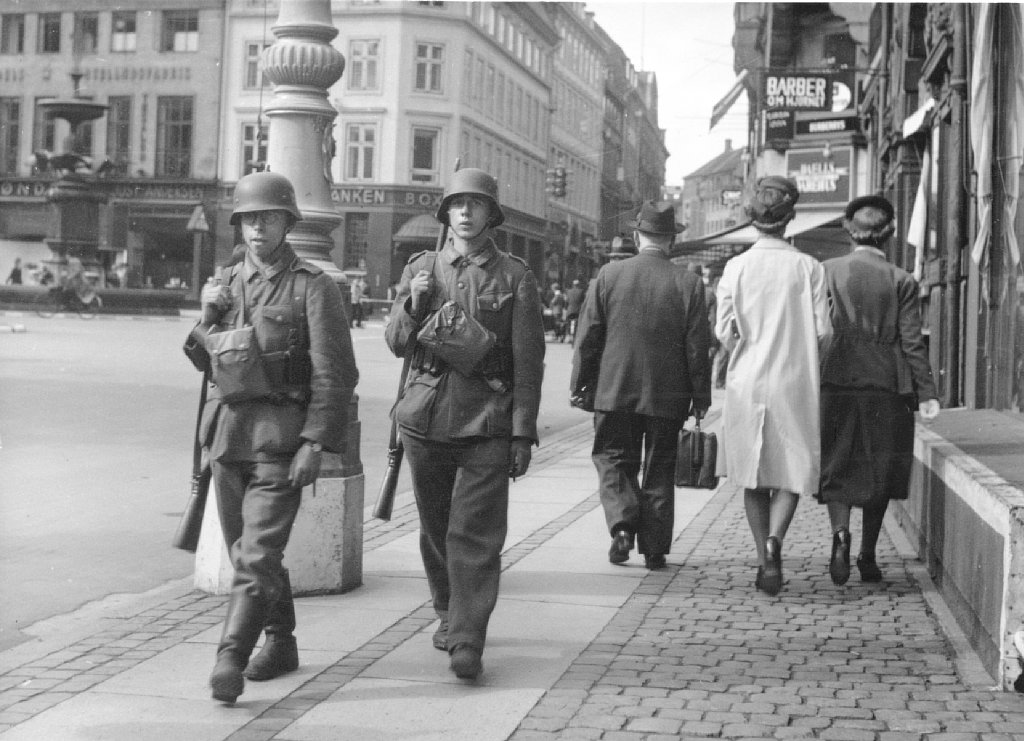 Fotograf: F. Aggersbo Se flere billeder her: Download and rights: More about The Museum of Danish Resistance (Frihedsmuseet)